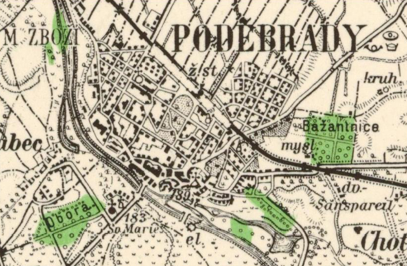 The map of Poděbrady from the Third Military Mapping Survey of Austria Empire